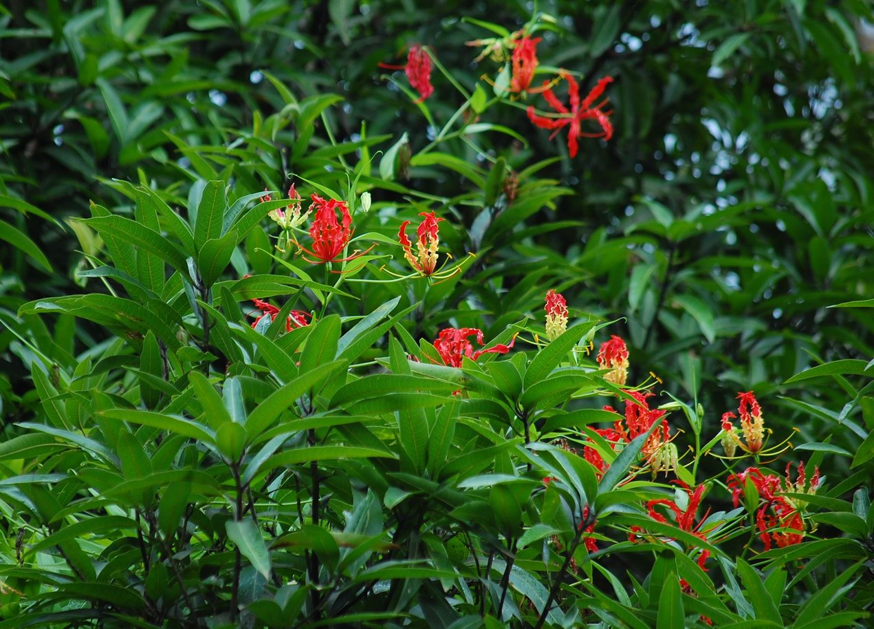 Gloriosa superba lilly